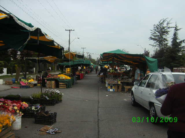 Market of saturdays in a village of Santiago de Chile